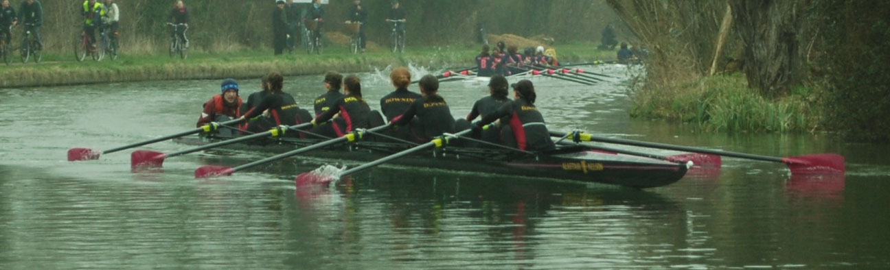 Downing W1, Lents 2011.